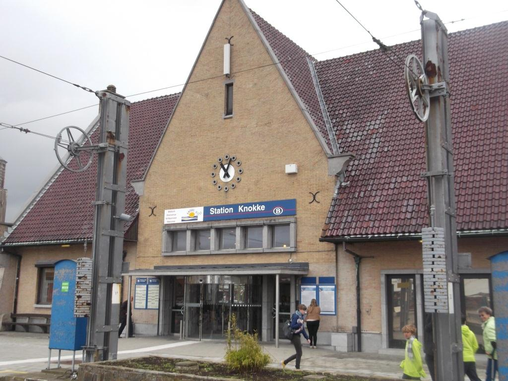 Station Knokke